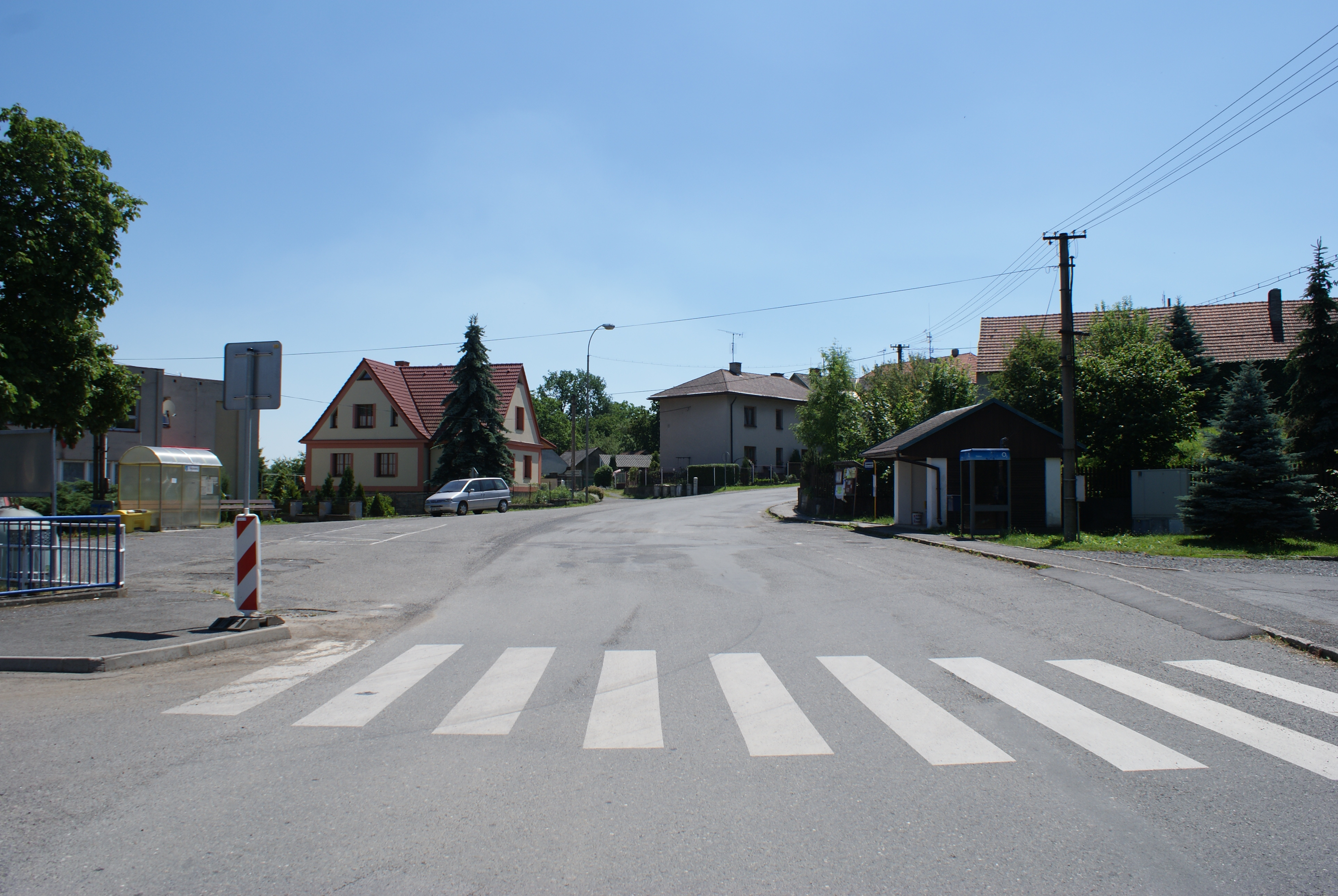 Třebsko, a village in Příbram district, Czech Republic, the village common. Česky: Třebsko, okres Příbram, náves